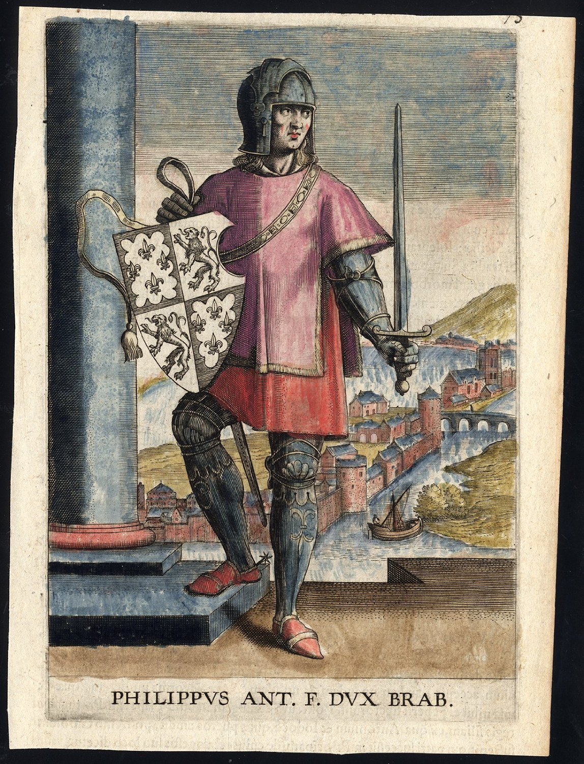 Philip of Saint-Pol, Duke of Brabant